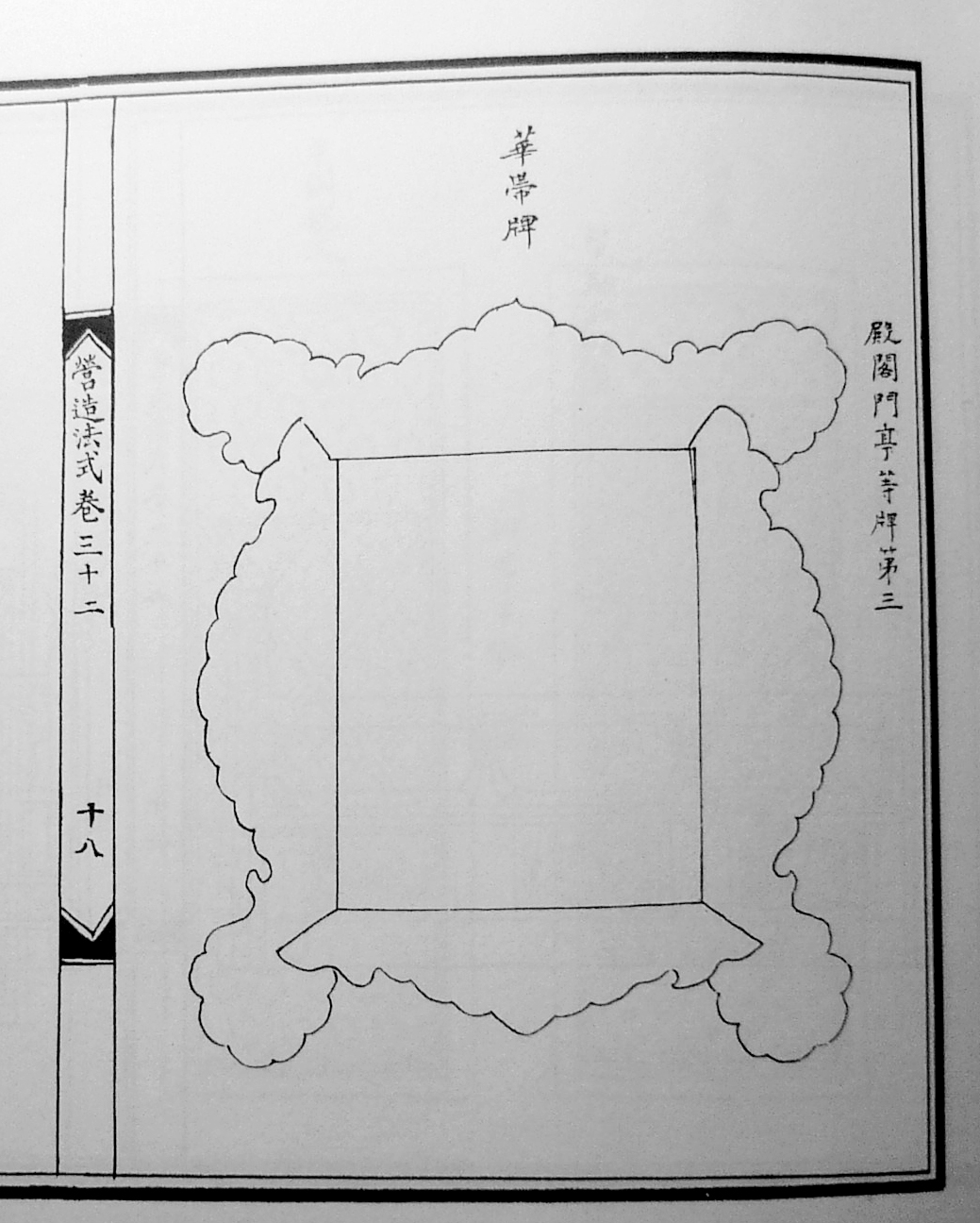 营造法式华带牌